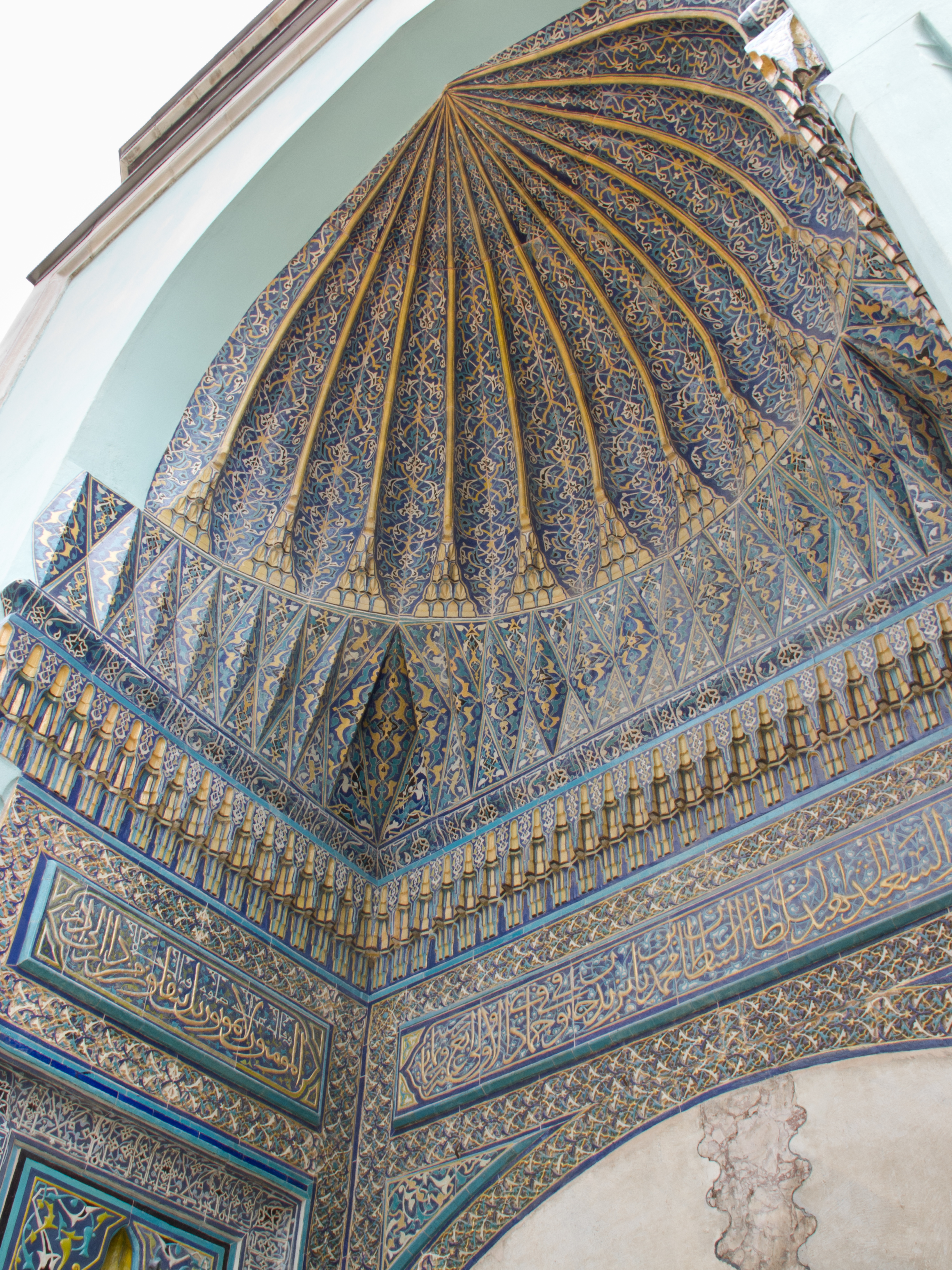 Mausoleum of the fifth Ottoman Sultan, Mehmed I, in Bursa, Turkey.